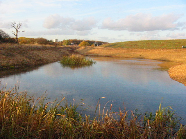 Pond, Minet Country Park. The Minet Country Park is newly created from a derelict area used partly as car boot sale, & for motor cycle scrambling. It is now an attractive country park. Its features include a cycle track, children's playground, lodge, & areas that make it a nature reserve appreciated by many bird species & other wild life. For a "Nature Trail" around the Minet Country Park before and after its creation, see the photographer's web pages